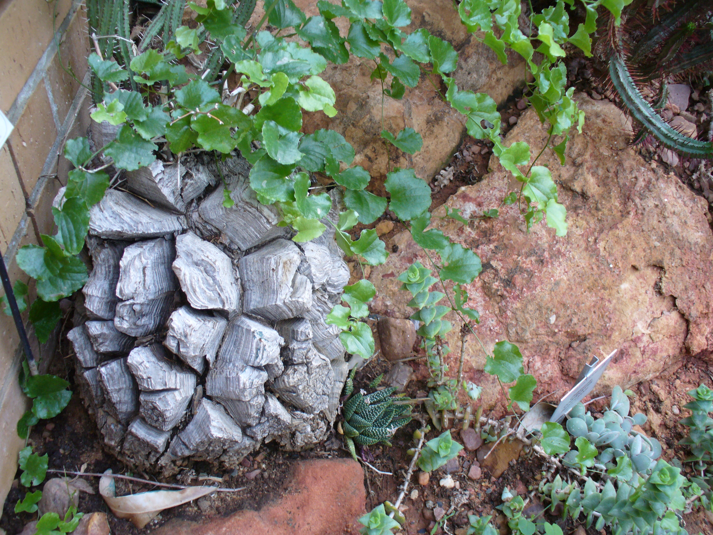 Hottentotsbrood or Elephant's foot